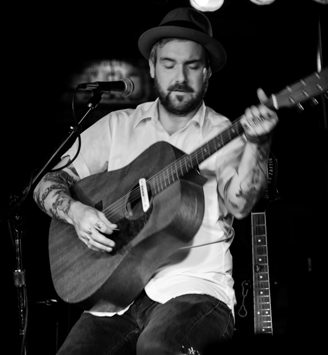 William Elliot Whitmore at RIBCO Rock Island 6/6/15